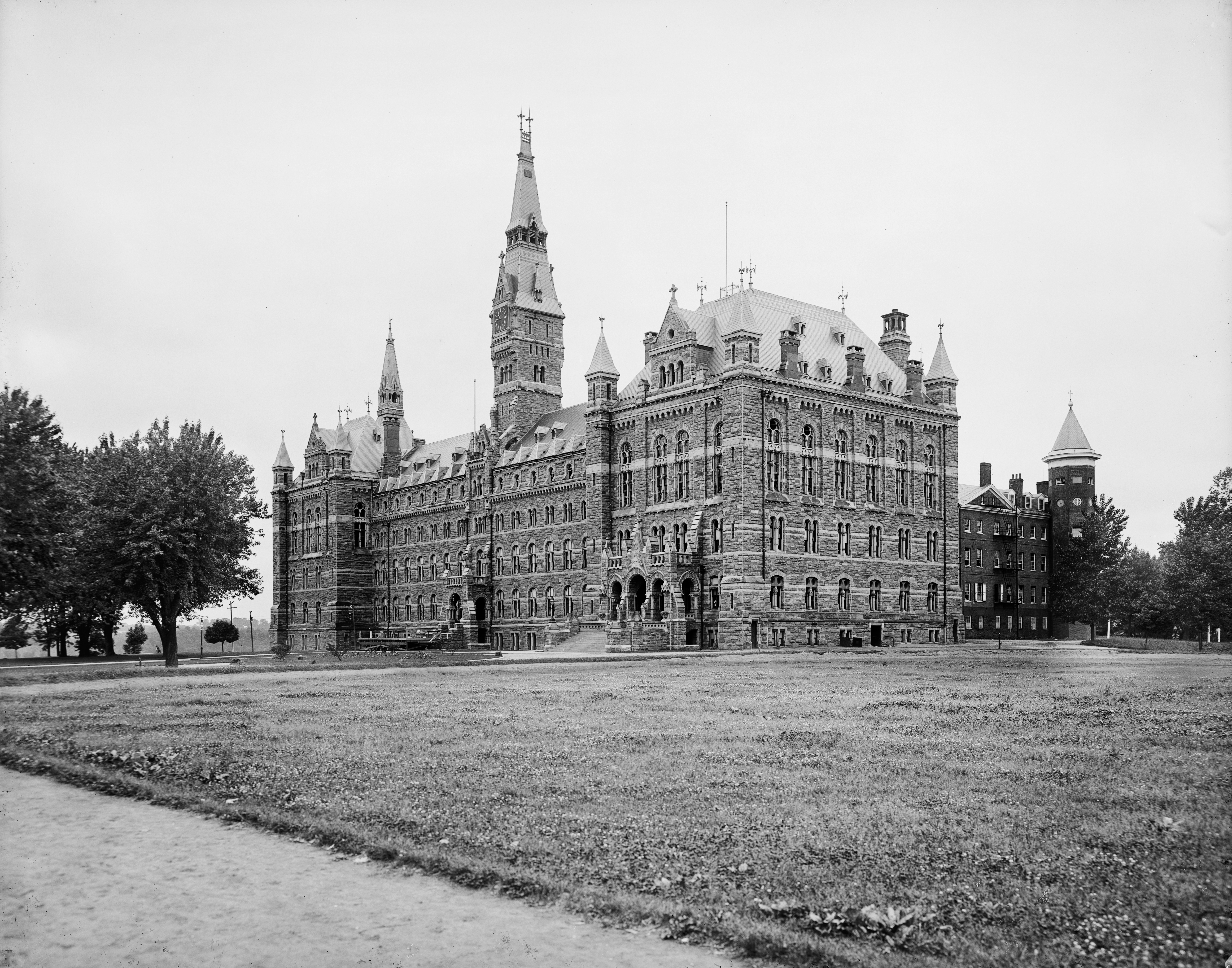 Healy Hall circa 1904, from the Detroit Publishing Compary collection no. 017564 published in 1906.